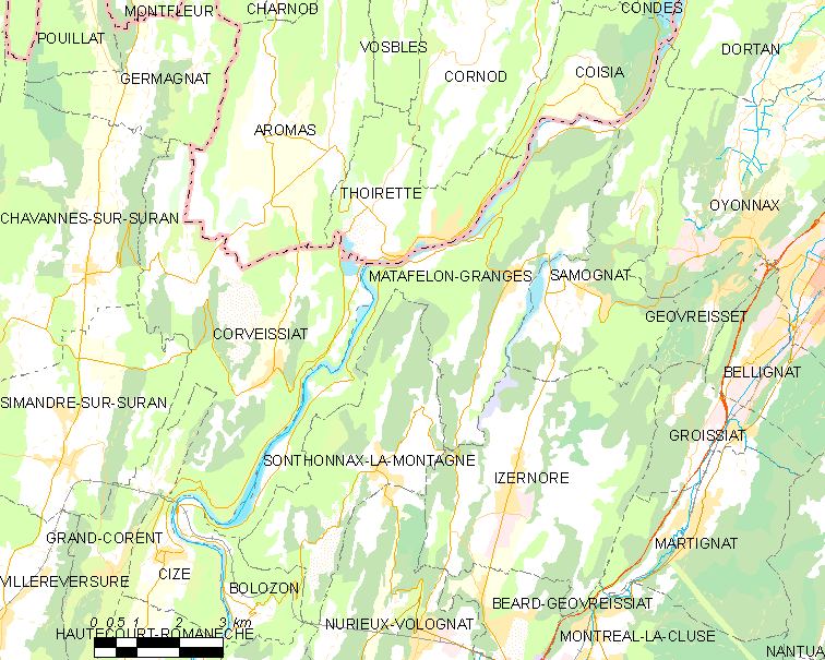 Map of French commune: Matafelon-Granges Map commune FR insee code 01240.png